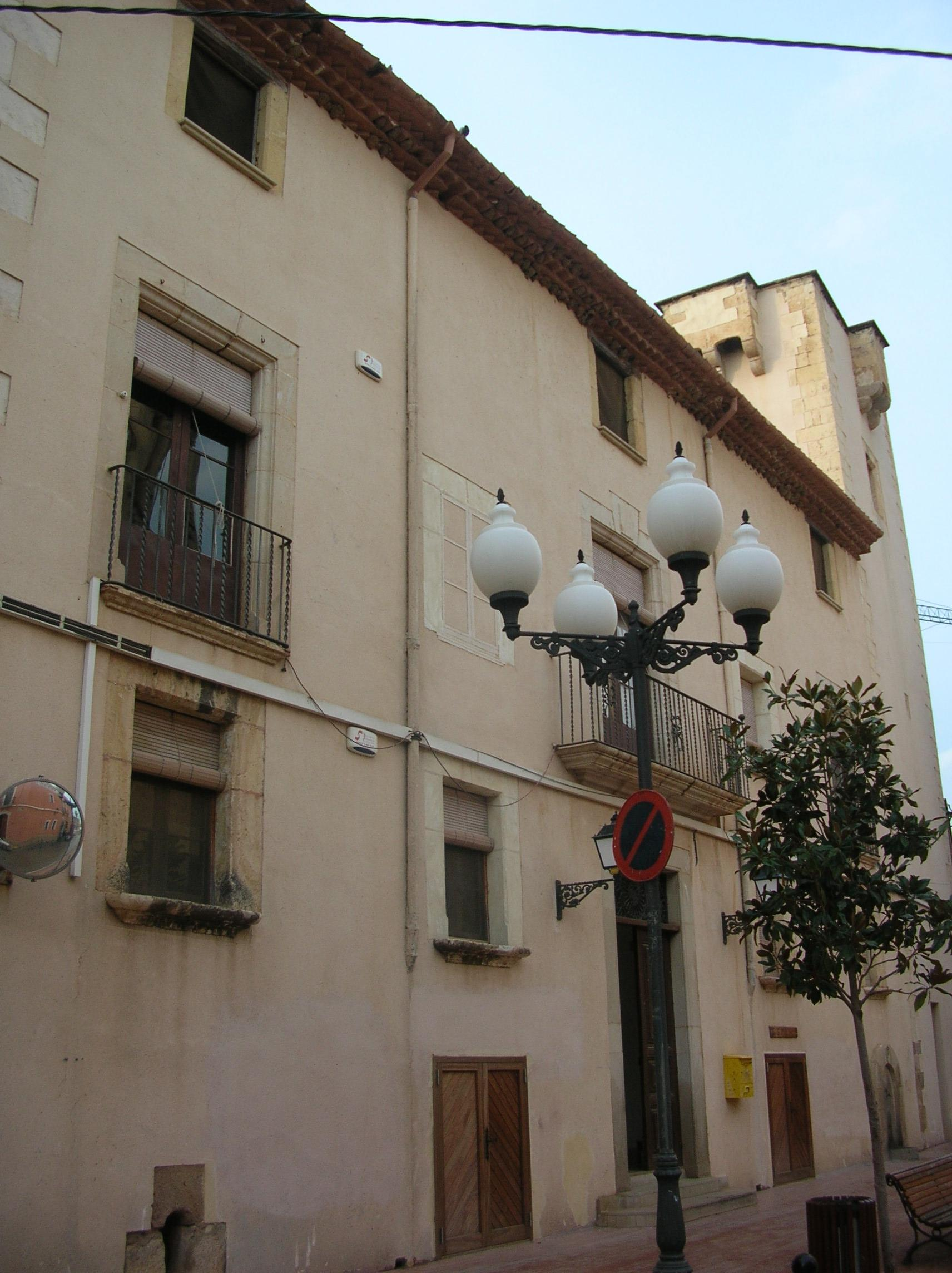 Town Hall of "Vinyols i els Arcs", a village in Catalonia.